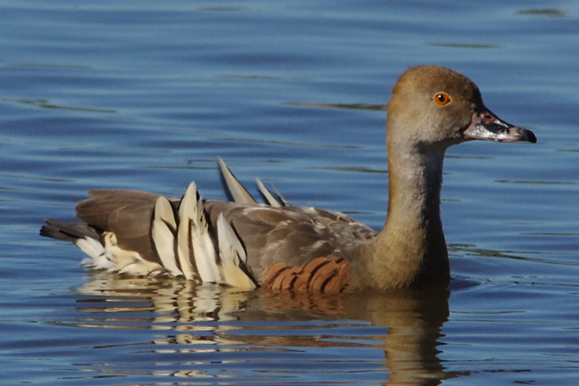 Plumed Whistling-Duck, Dendrocygna eytoni; wild bird